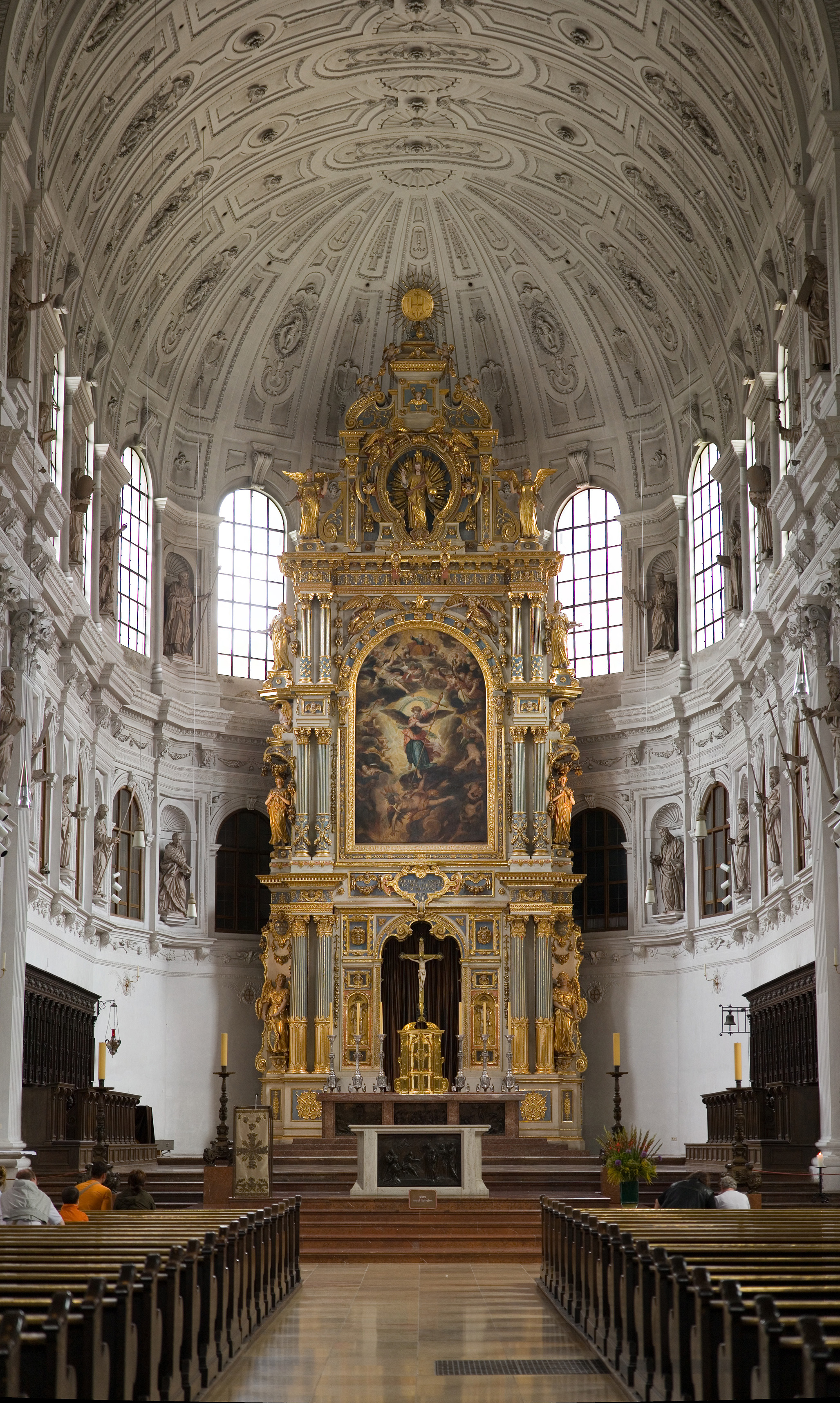 The High Altar of Michaelskirche (St Michael's Church). This is a 4 segment vertical panorama taken by myself with a Canon 5D and 24-105mm f/4L IS lens at 85mm.